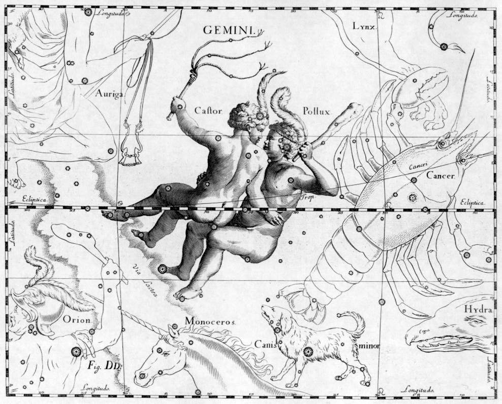 1 = Johannes Hevelius, Prodromus Astronomia, volume III: Firmamentum Sobiescianum, sive Uranographia, table DD: Gemini, 1690.